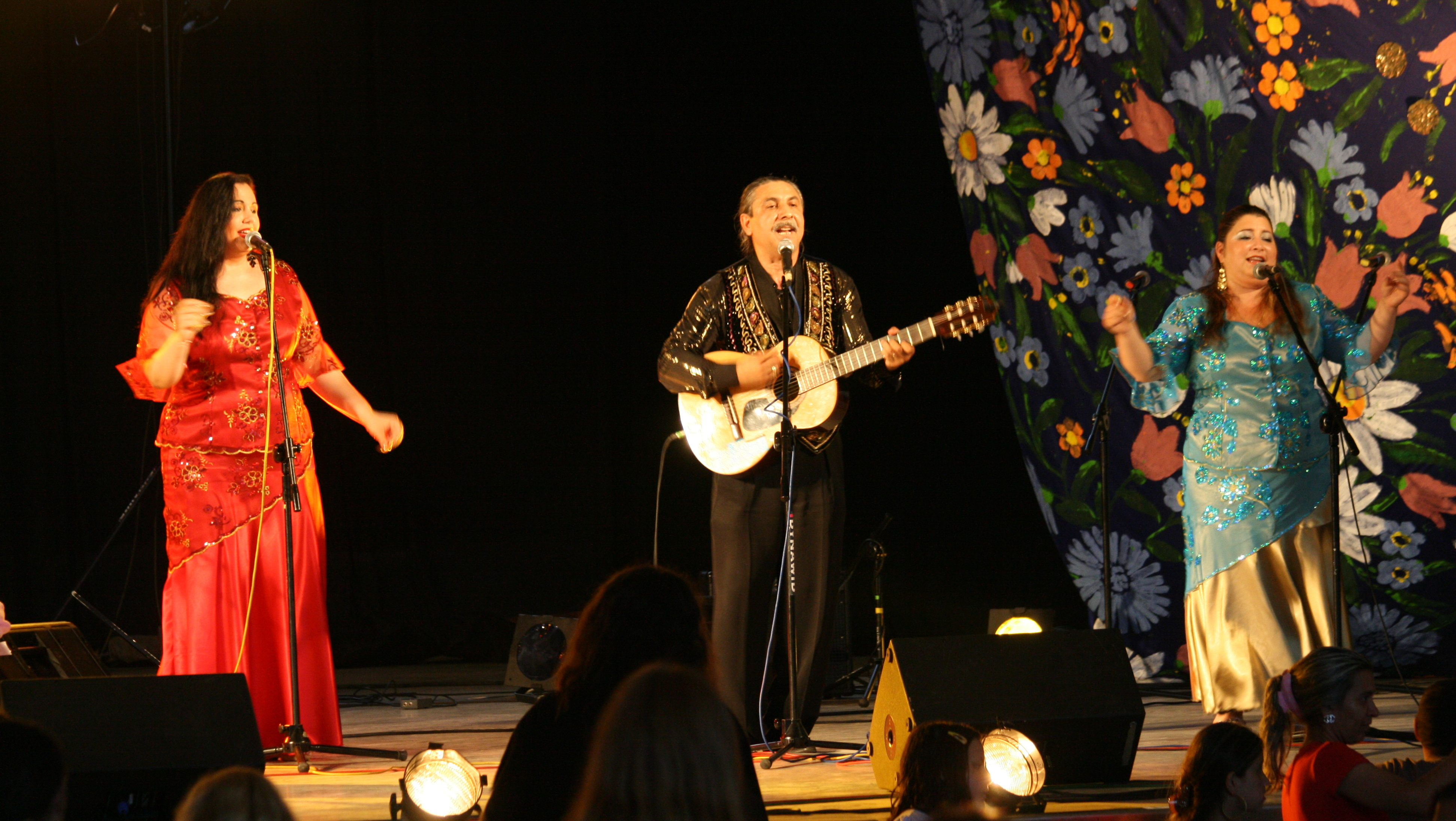 Kalyi Jag (Black Fire) Hungarian Gypsy music band